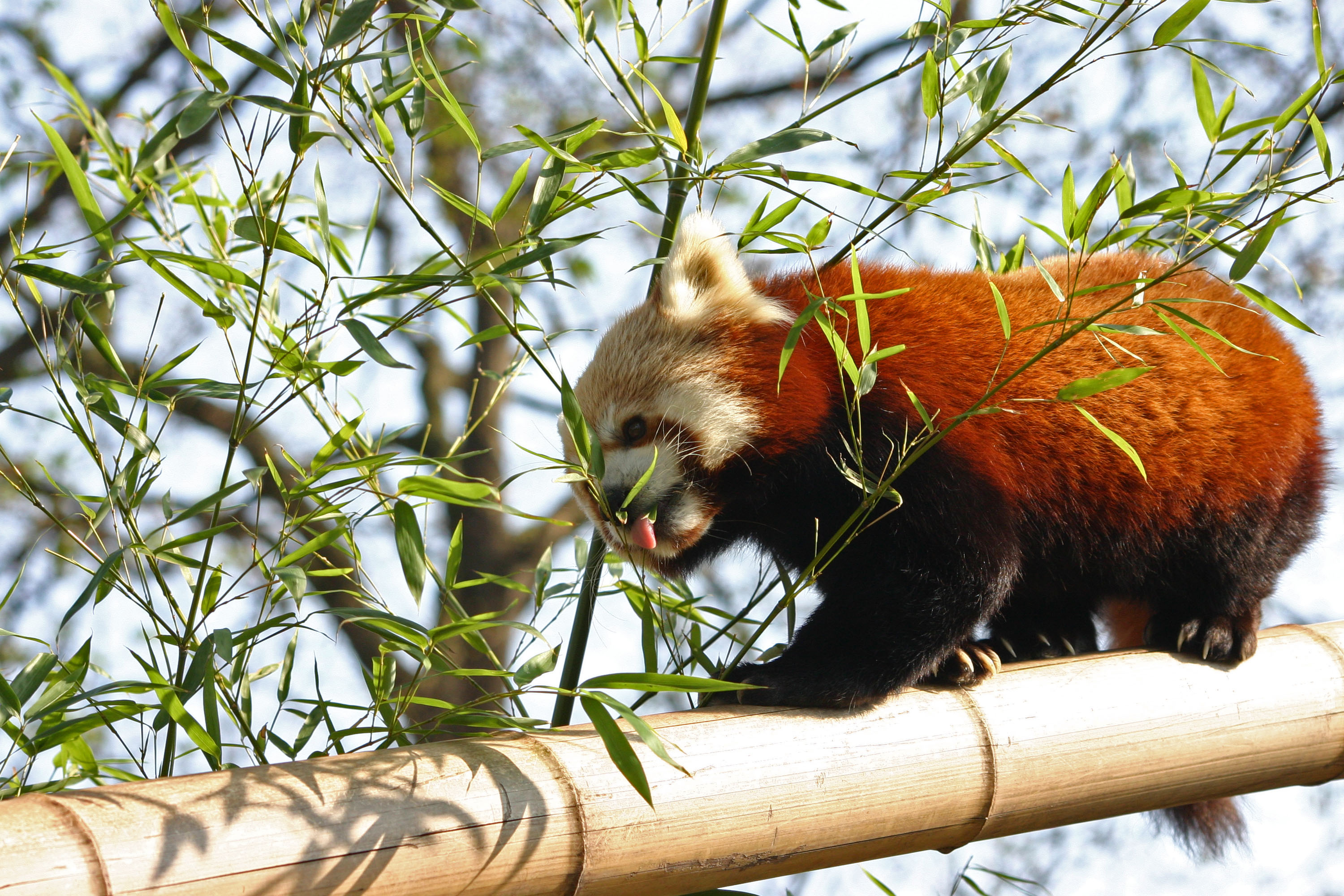 A red panda in the menagerie of the Jardin des Plantes in Paris.